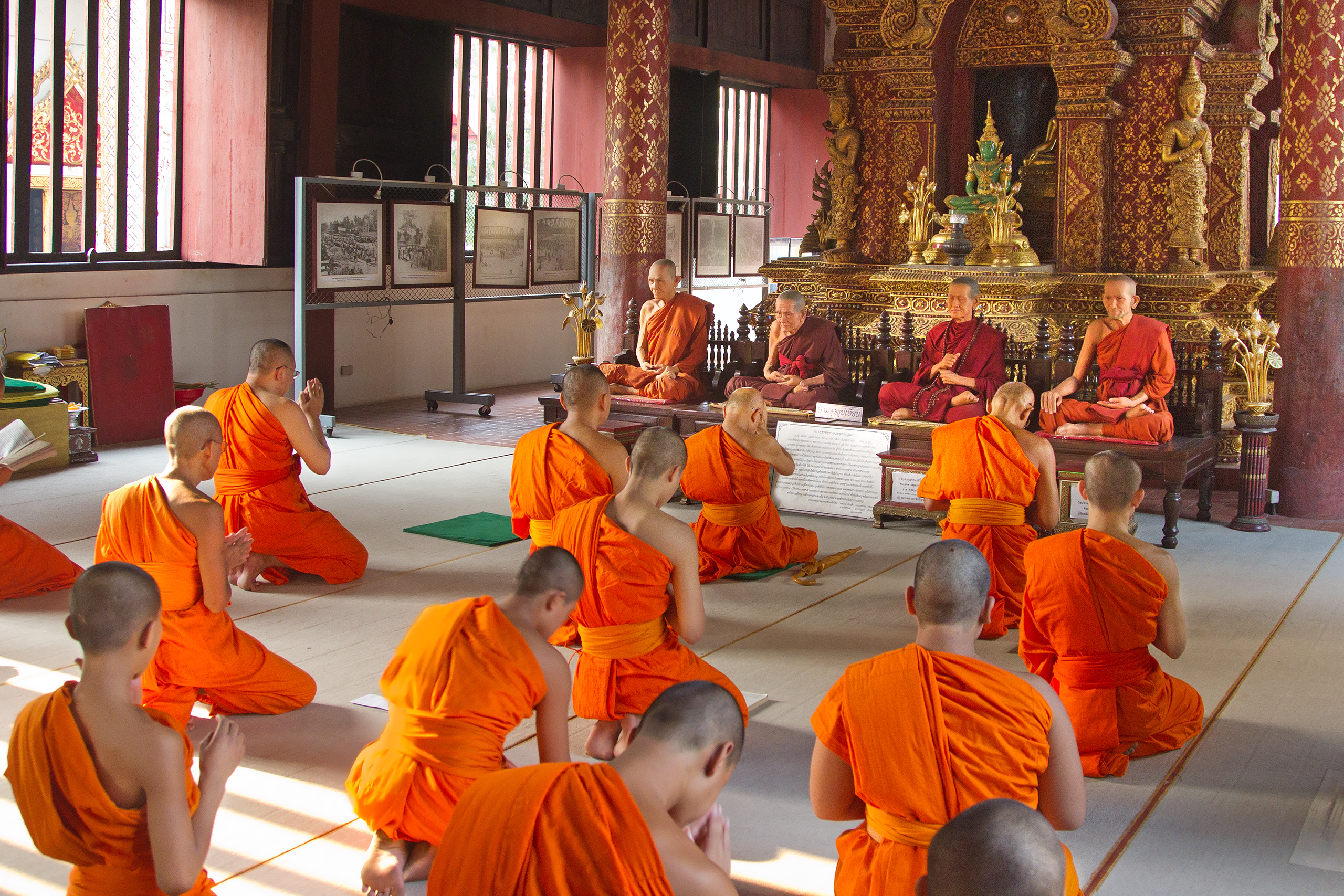 Buddhist monks in the ubosot of Wat Phra Singh, Chiang Mai, Chiang Mai Province, Thailand